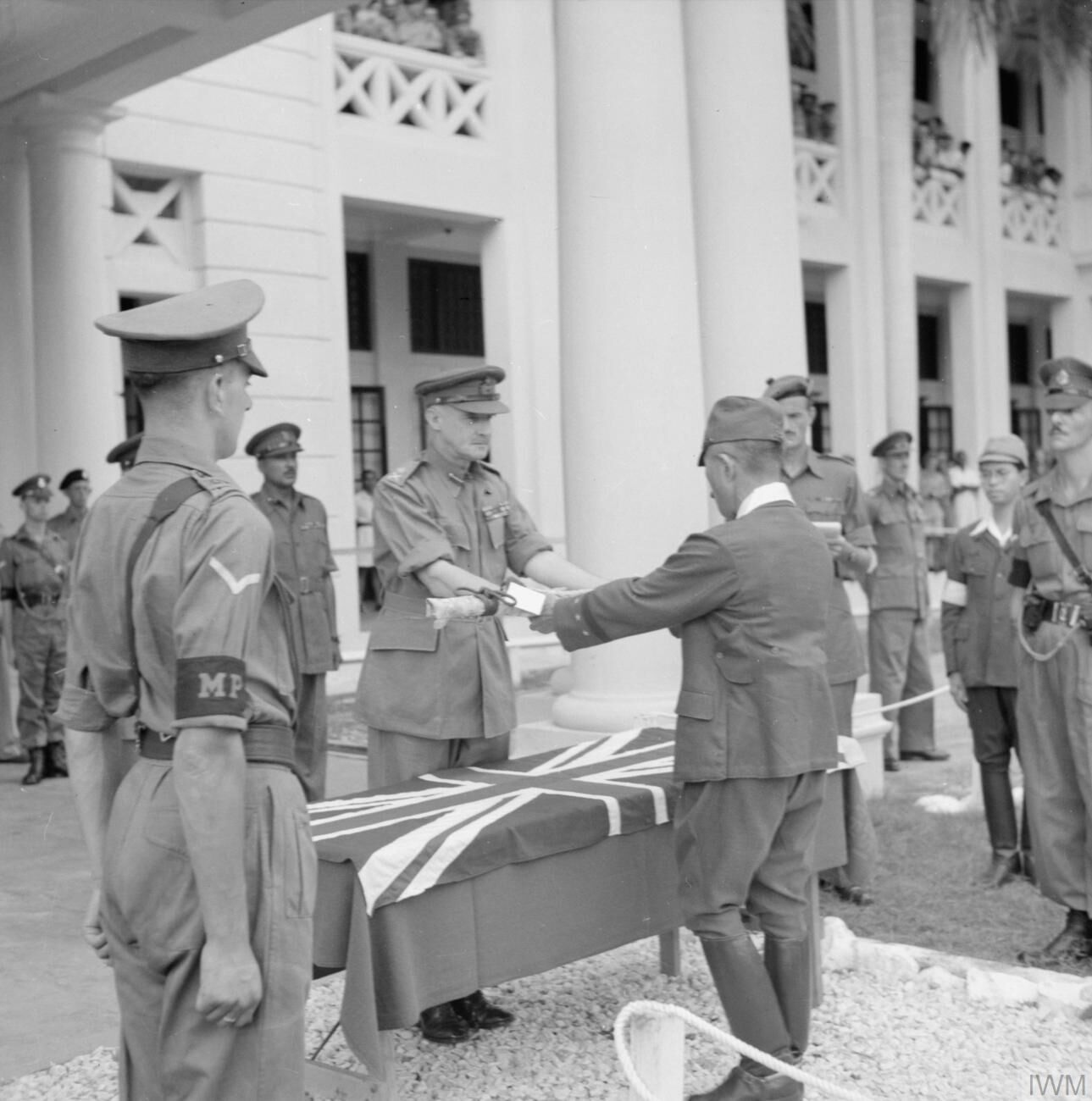 General Officer Commanding Malaya Command, Lieutenant General F W Messervy KBE, CB, DSO, receives the sword of General Itagaki, Commander of the Japanese 7 Area Army, which controlled Malaya, Java, Sumatra, Nicobar and Andaman Islands, parts of Borneo and Siam, at a formal ceremony of surrender held in the grounds of Headquarters Malaya Command, Kuala Lumpur. 22 February 1946